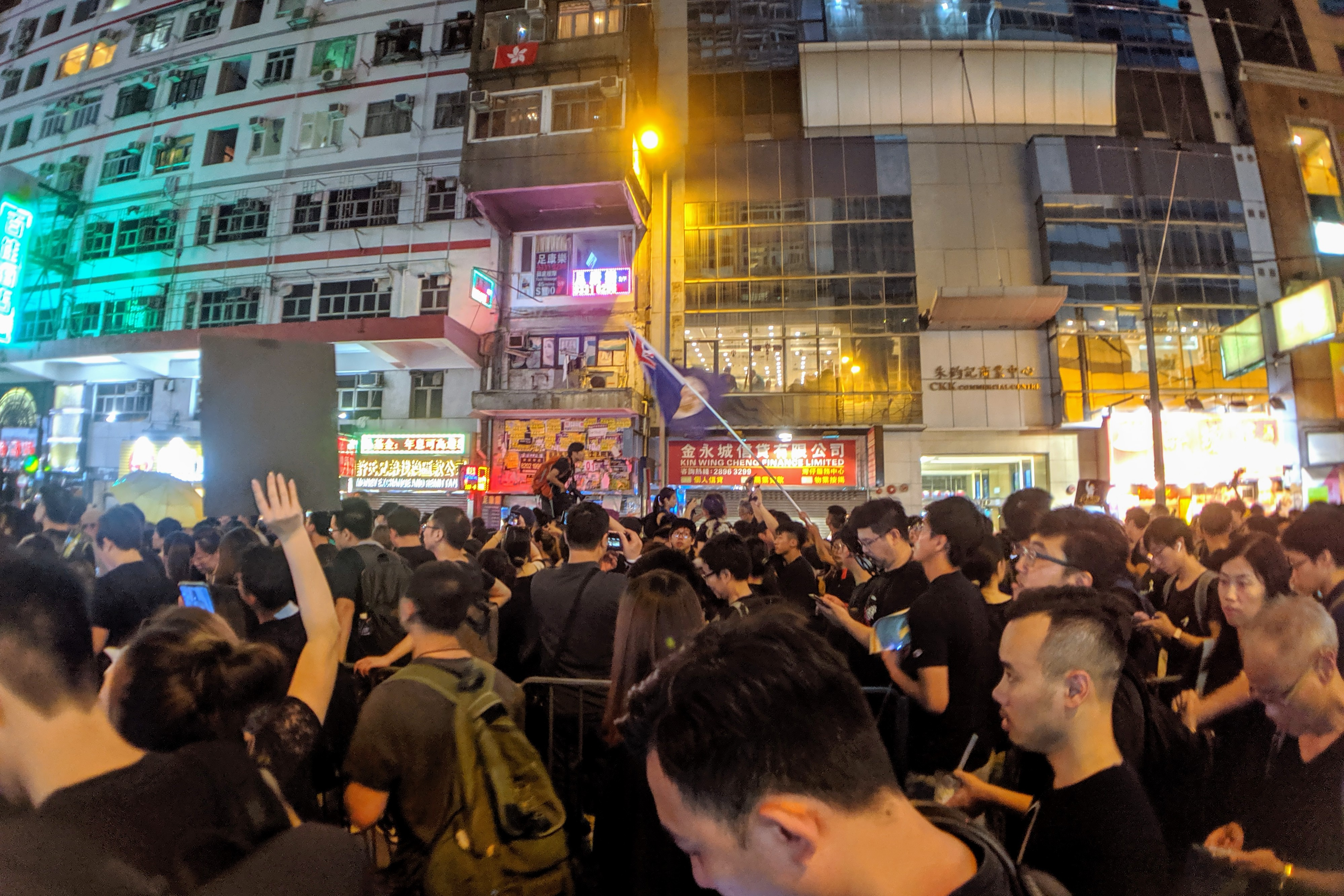 2019 Hong Kong anti-extradition law protest on 16 June, captured by Studio Incendo from Flickr.